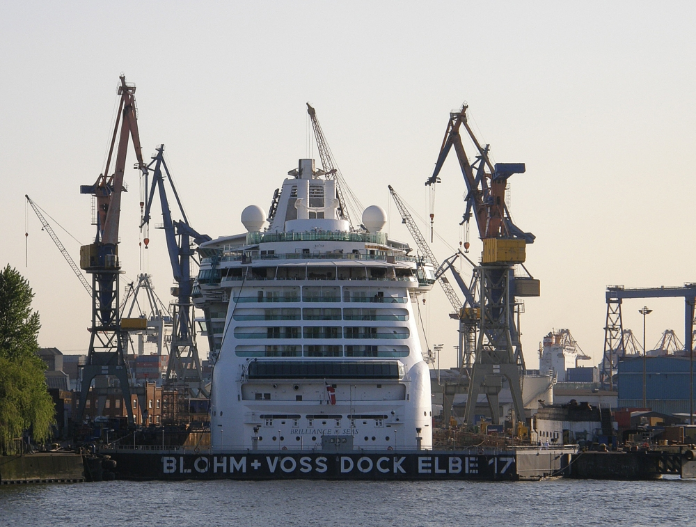 Blohm und Voss Dock Elbe 17 Name:Brilliance of the Seas IMO Number: 9195200 MMSI Number: 311361000 Callsign: C6SJ5 Length: 294 m Beam: 23 m